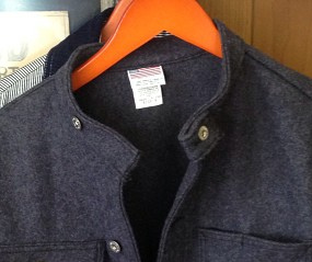 Japanese-market #pointerbrand wool band-collar jacket